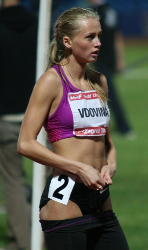 Kseniya Vdovina in Zagreb, 2010